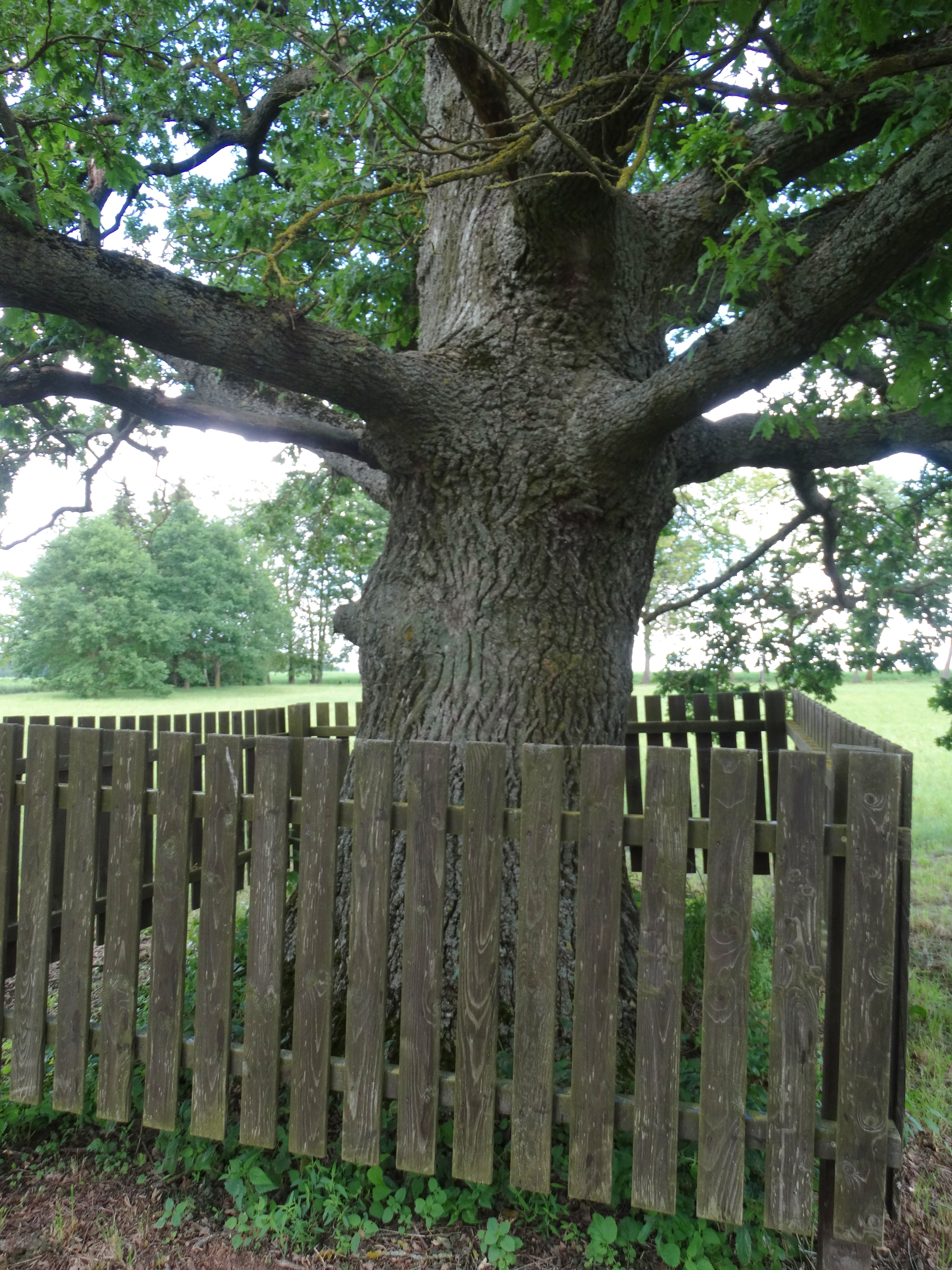 Brazdžionis oak tree, Stebeikiai, Pasvalys District, Lithuania